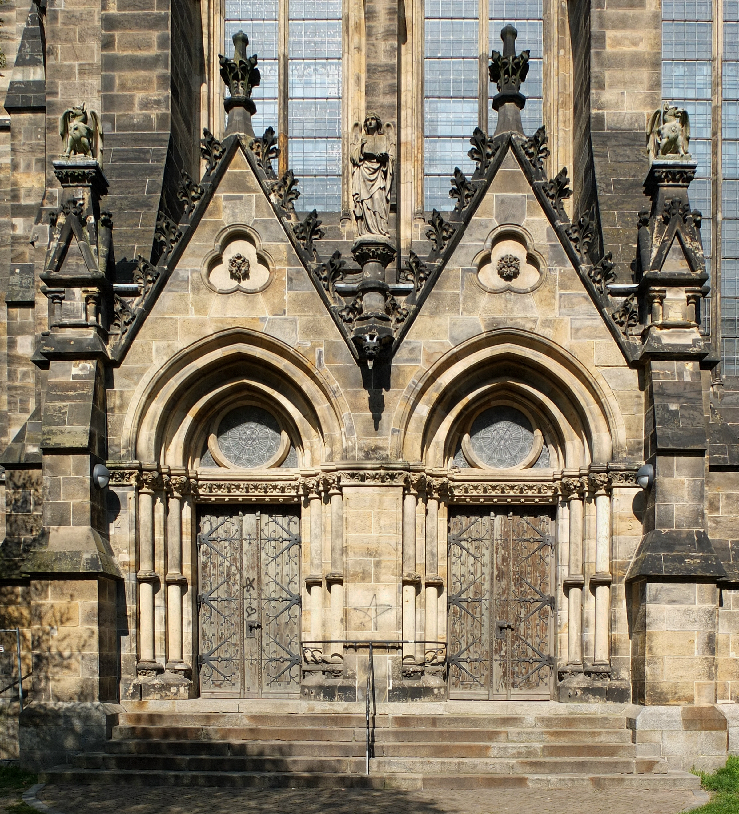 Southern side portal of "Peterskirche" in Leipzig, Germany.